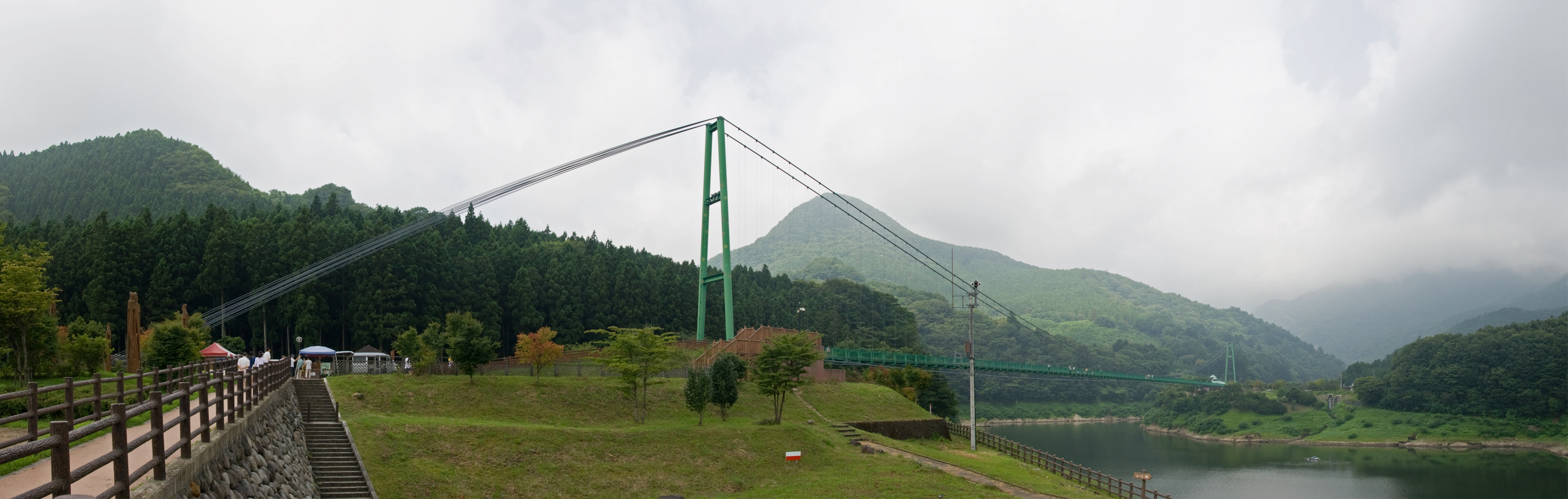 Momijidani-ōtsuribashi at Tochigi, Japan.